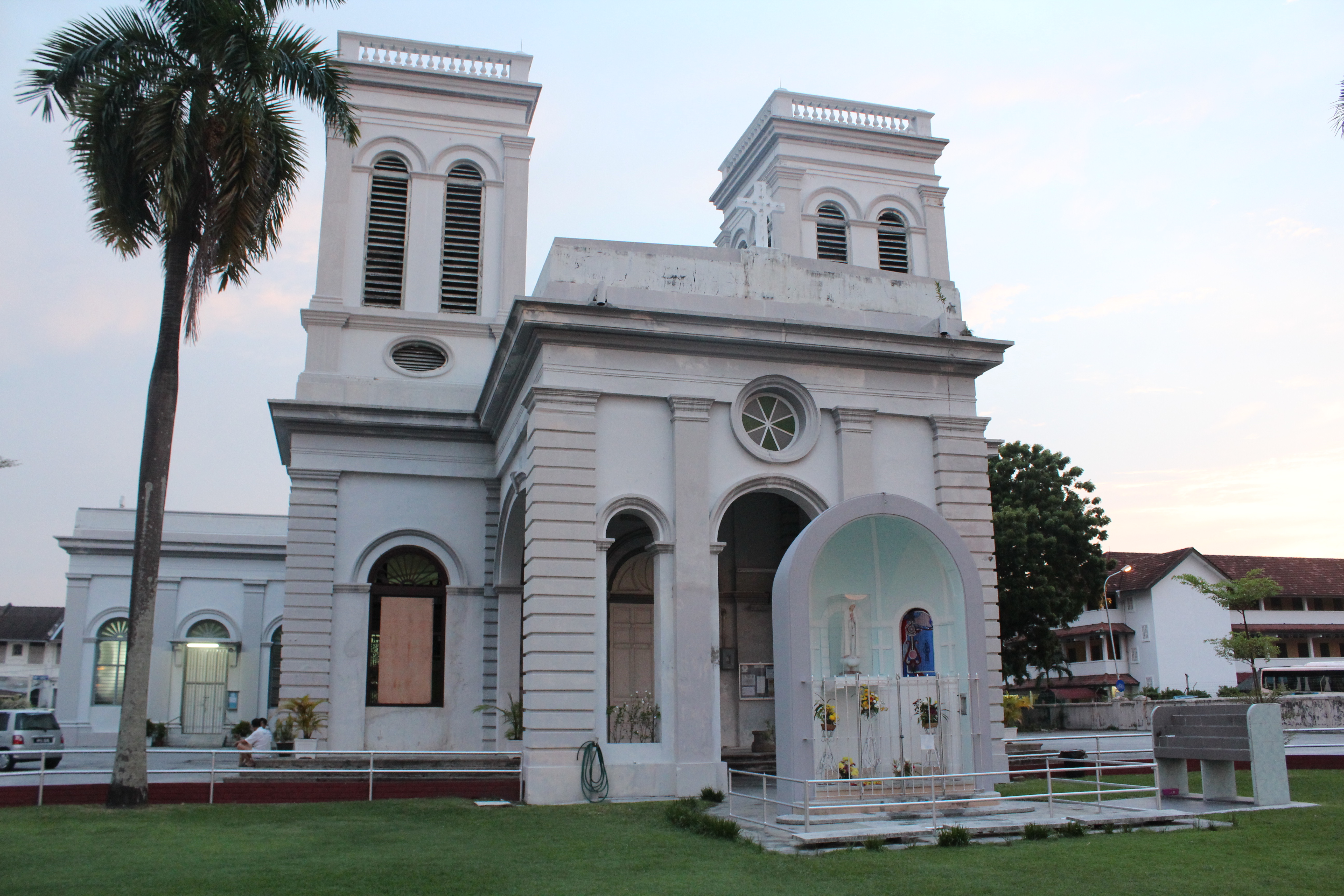 Church of The Assumption